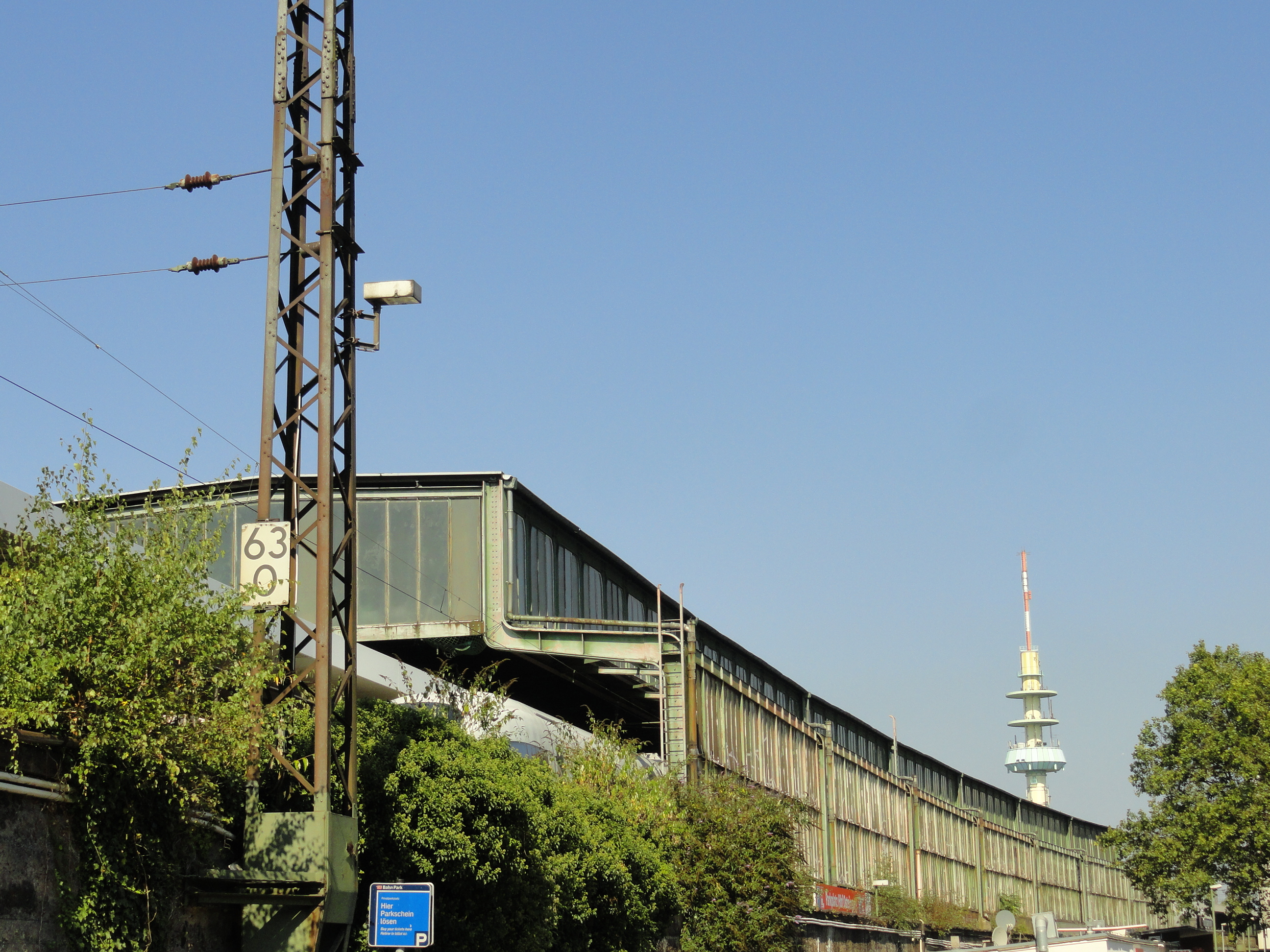 View of one of the six historic platform canopies (built from 1931-34, with recourse to Roman/early Christian basilicas with clerestory windows) from south-east.